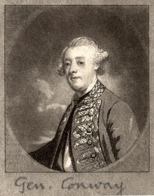 Portrait of Field Marshal Henry Seymour Conway